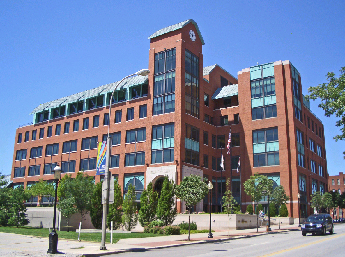 Kansas City Southern Railway, Headquarters Office in Kansas City, Missouri